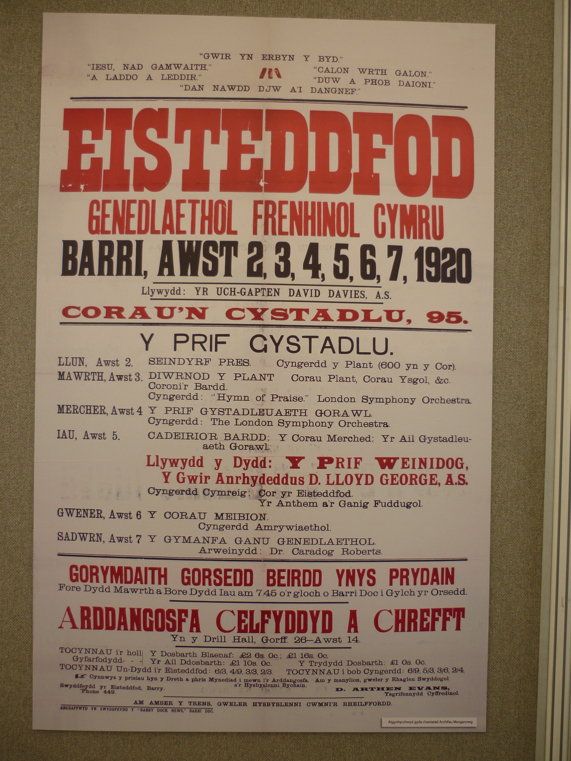 A reproduction of a poster advertising the 1920 National Eisteddfod in Barry.